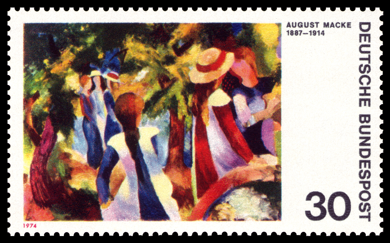 German expressionism Ausgabepreis: 30 Pfennig First Day of Issue / Erstausgabetag: 16. August 1974 Michel-Katalog-Nr.: 816